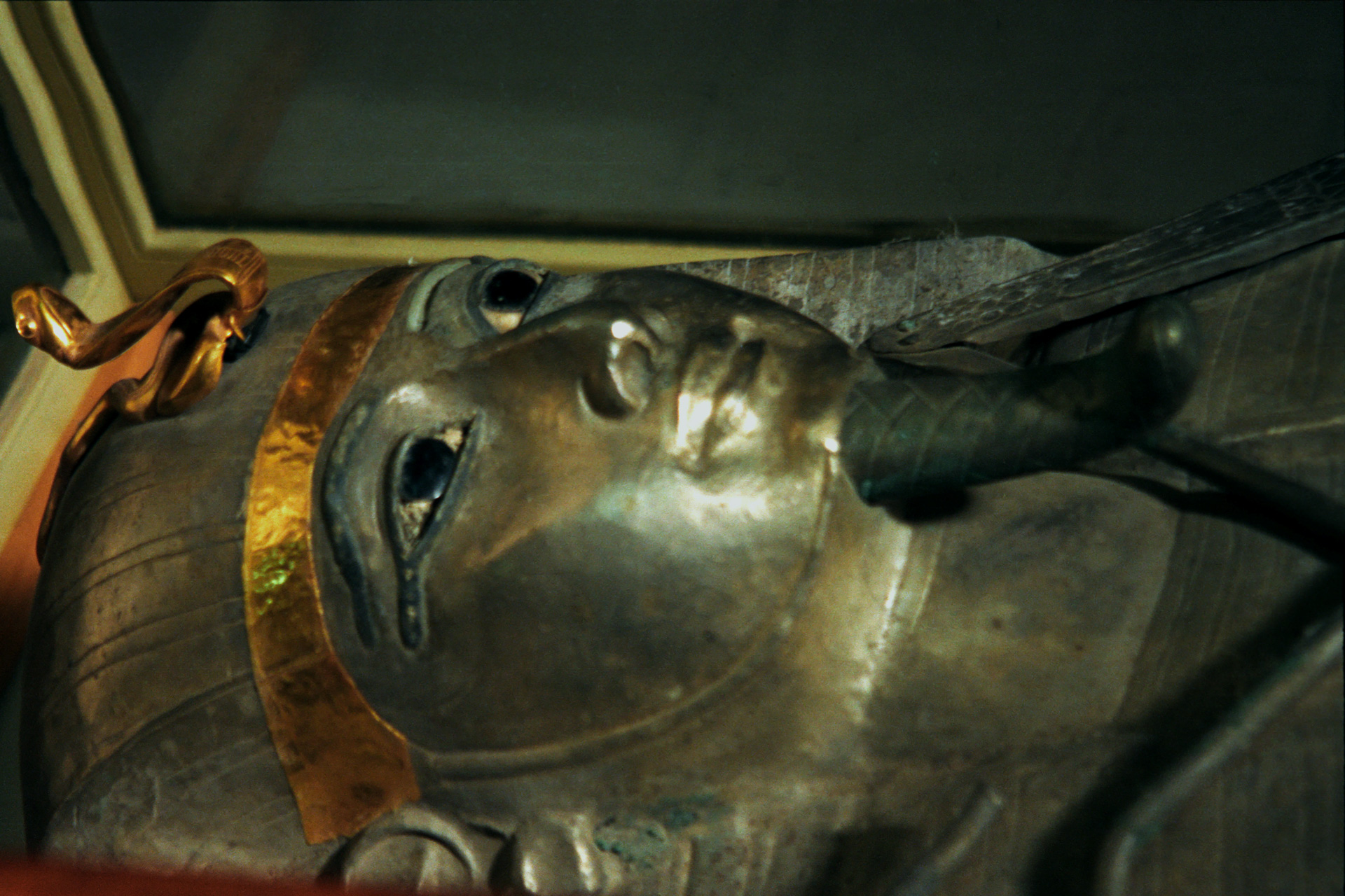 Silver Antropoid coffin of Psusennes I, Egyptian Museum